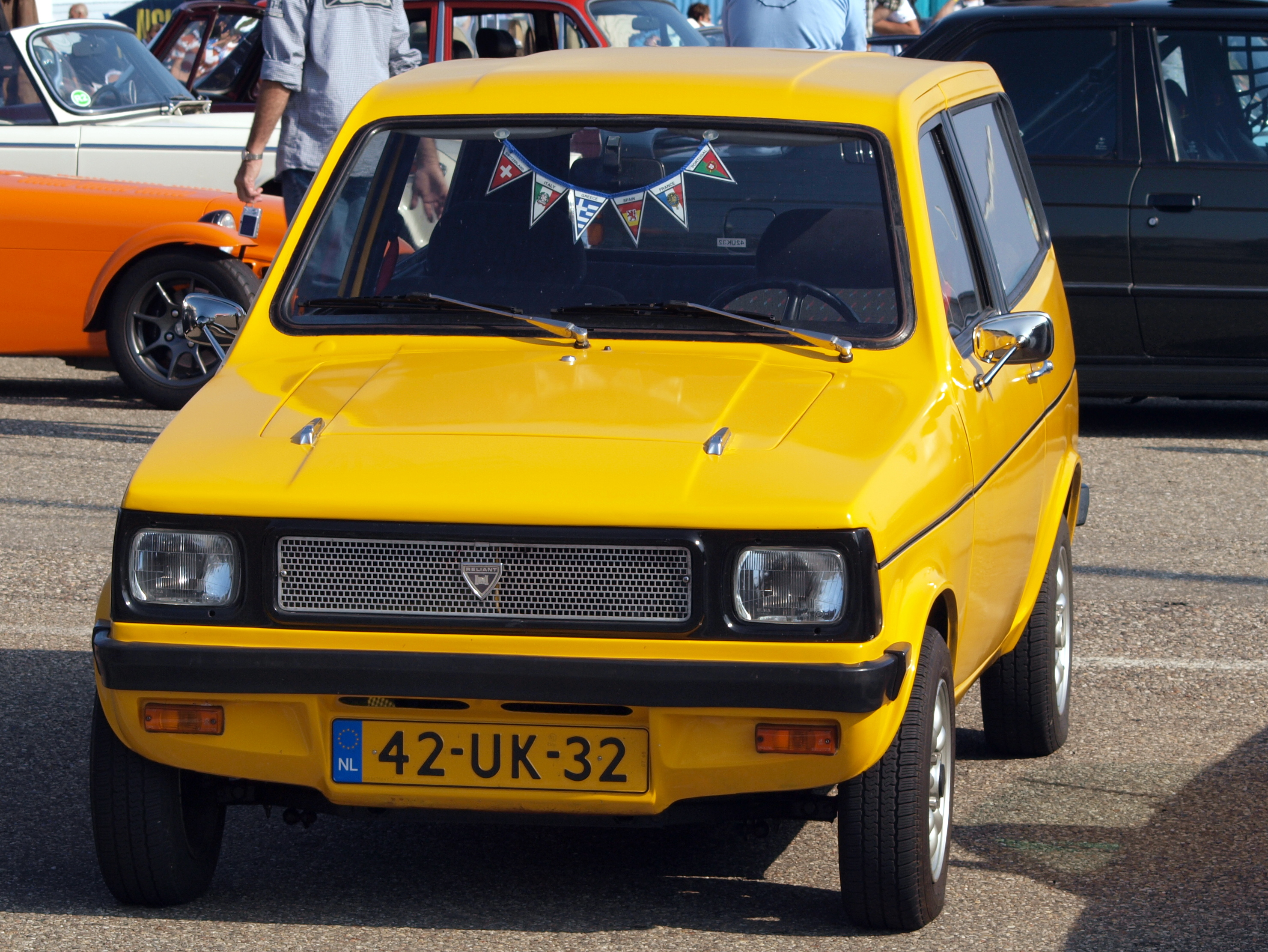 Photographed at the Nationaal Oldtimer Festival Zandvoort 2009, The Netherlands. OLYMPUS DIGITAL CAMERA